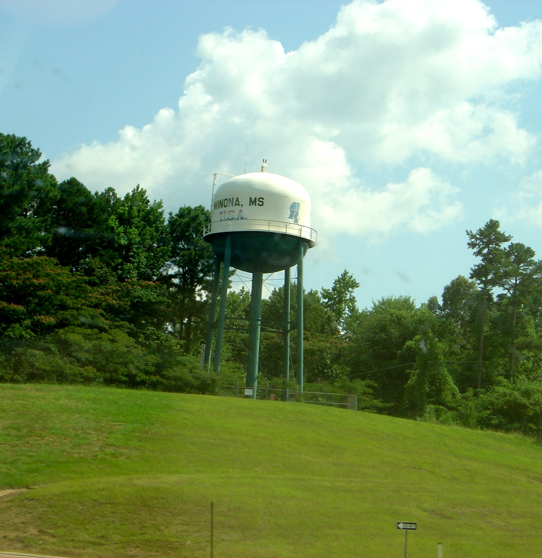 Water tower, Winona, Mississippi, United States.